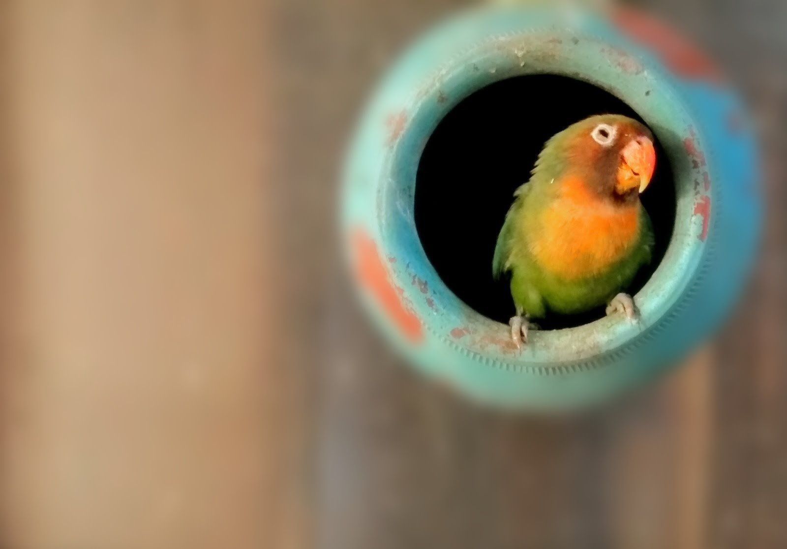 I captured this picture in Jain bird hospital.